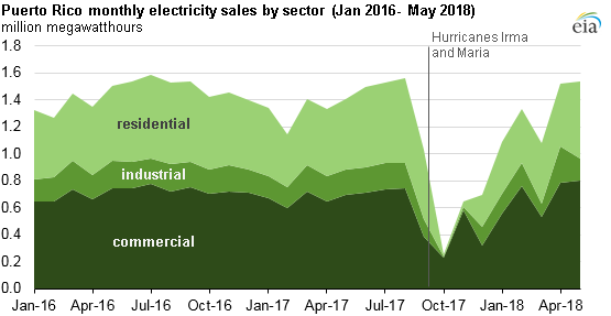 New EIA data series indicate that total electricity sales in Puerto Rico have returned to pre-Hurricane Maria levels as of April and May 2018 after the longest blackout in U.S. history. However, residential electricity sales appear to continue to lag historical levels, reflecting some continued outages. August 6, 2018